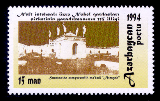 Stamp of Azerbaijan